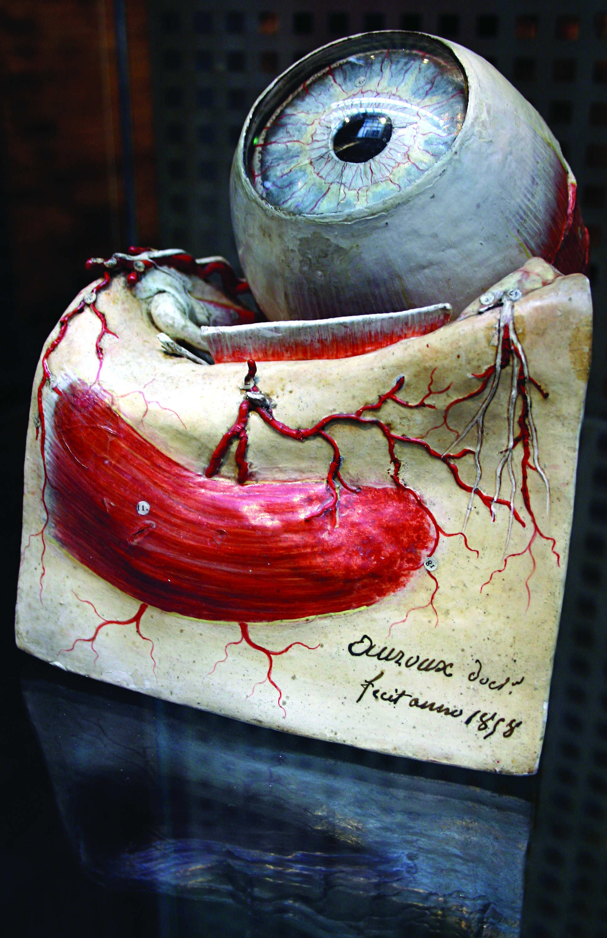 Museum Boerhaave, Leiden - Model of eye object id (inventory #): V09995 dimensions: h: 20 cm signature: "Dr. Auzoux, Rue Antoine-Dubois, 2, Paris" period: 1860 Museum Room 19